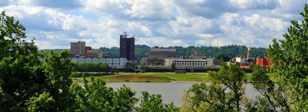 Downtown Huntington, WV from across the Ohio River.